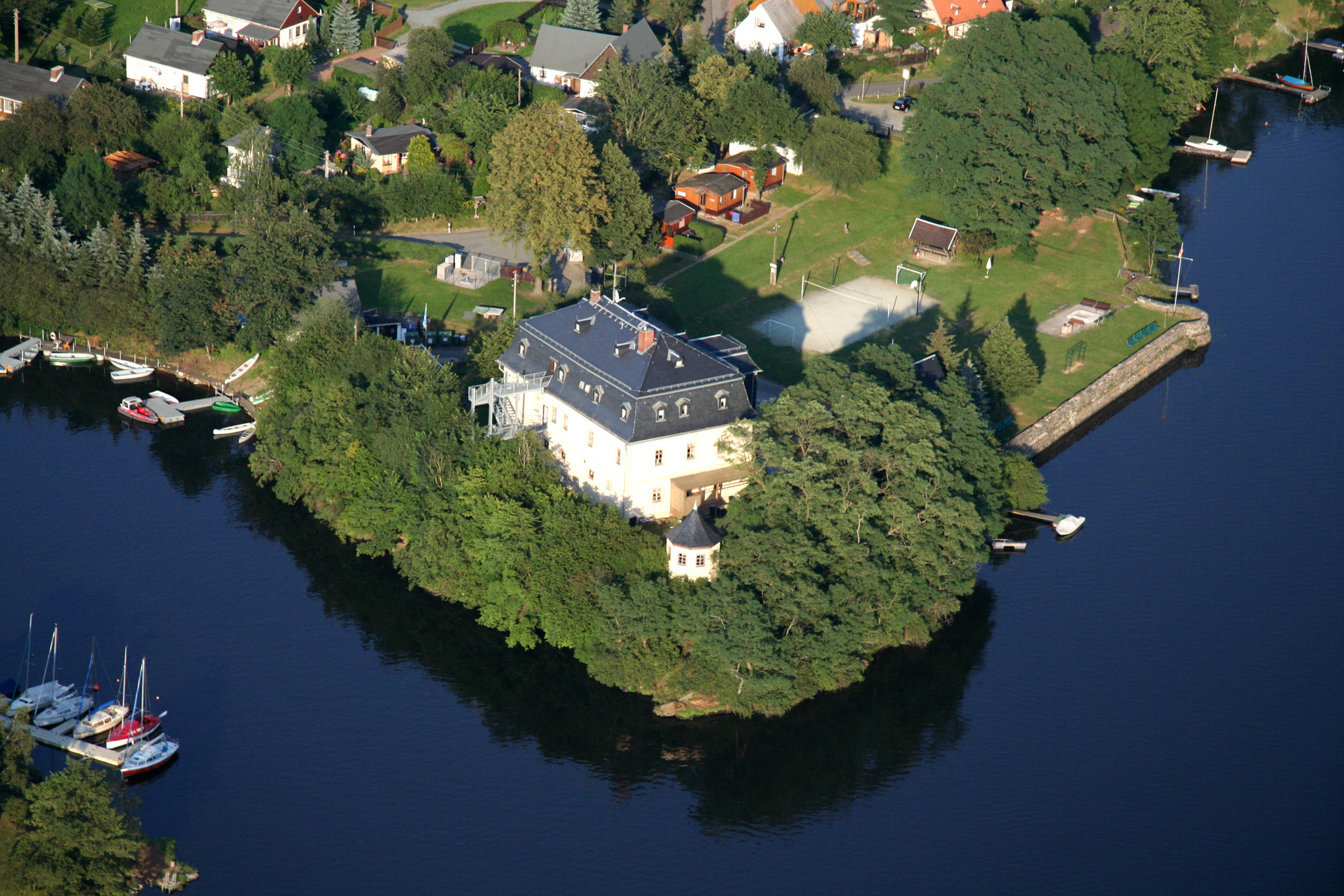 Picture of the youth hostel Taltitz